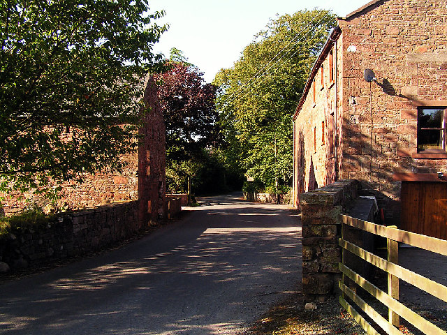 The village of Haile, West Cumbria. A small village characterised by traditional sandstone buildings such as these.